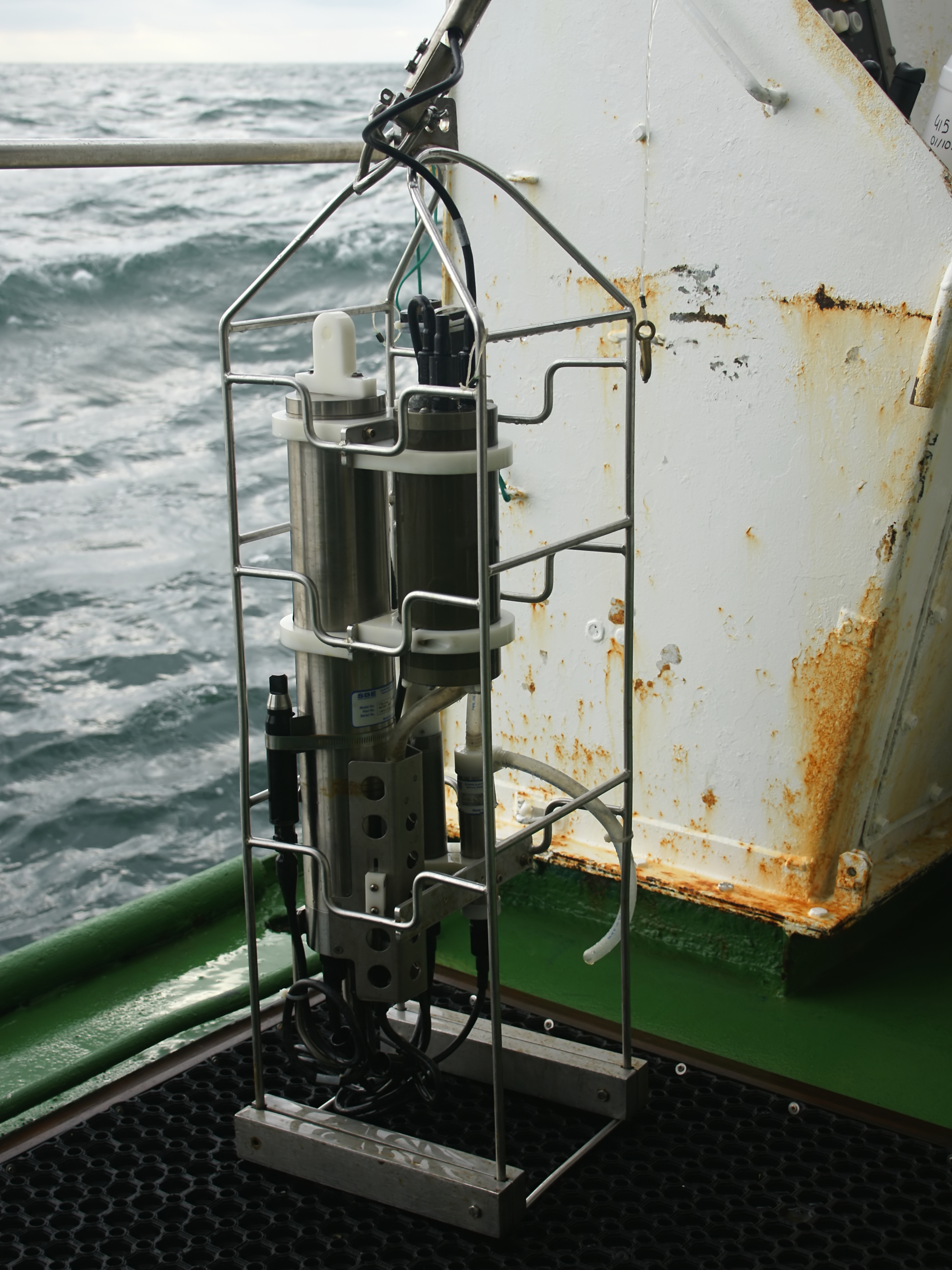 CTD in a protective metal frame on the RV Belgica. Image taken somewhere on the Belgian part of the North Sea.